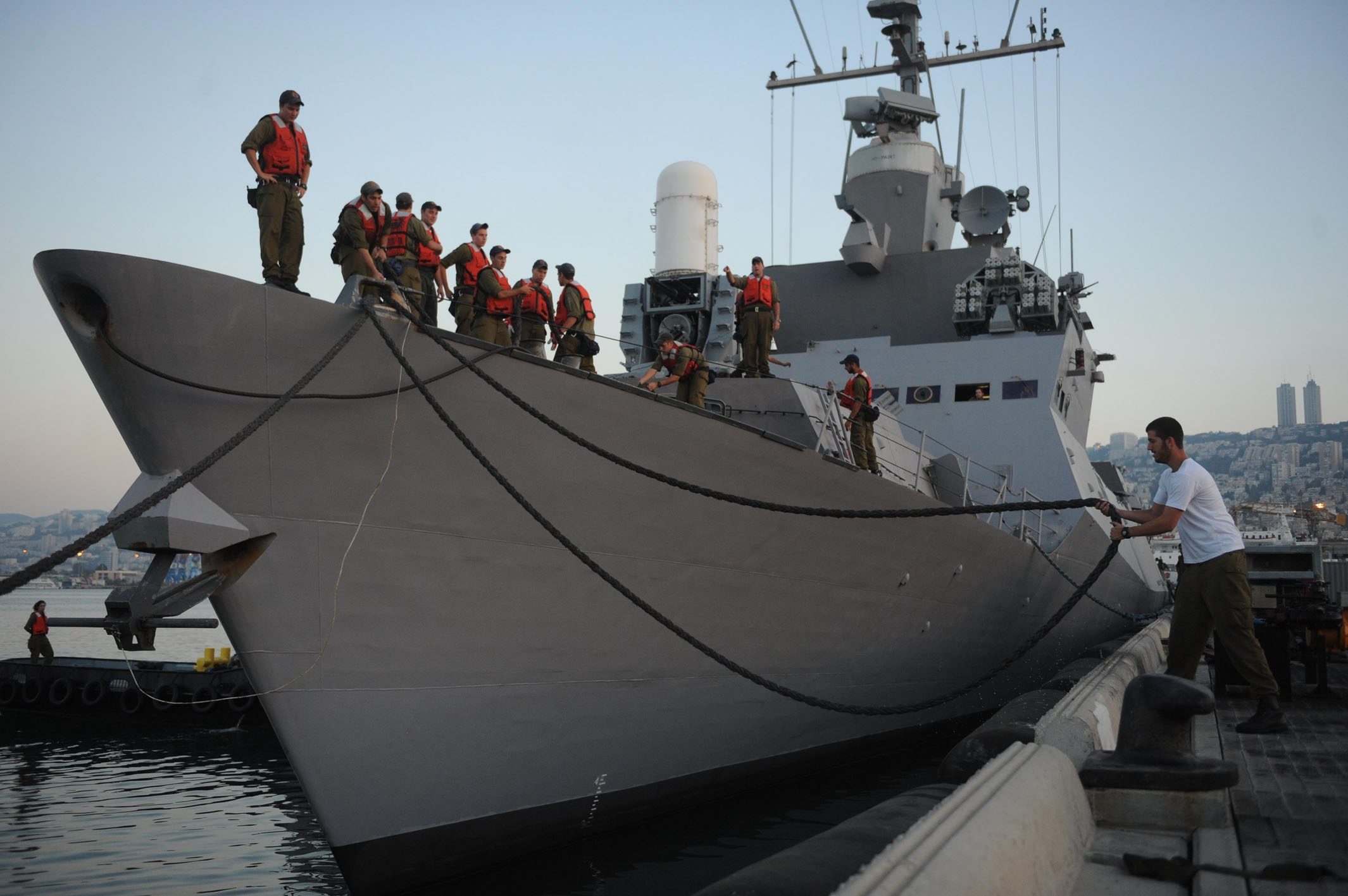 May 30, 2010. IDF Naval Forces drill and practice various scenarios to prepare for the Flotilla Operation. All materials transferred to Gaza through Israel are first inspected in order to verify that cargo does not contain any weapon making materials which would aid the Hamas government, or any other terrorist organization in the region.